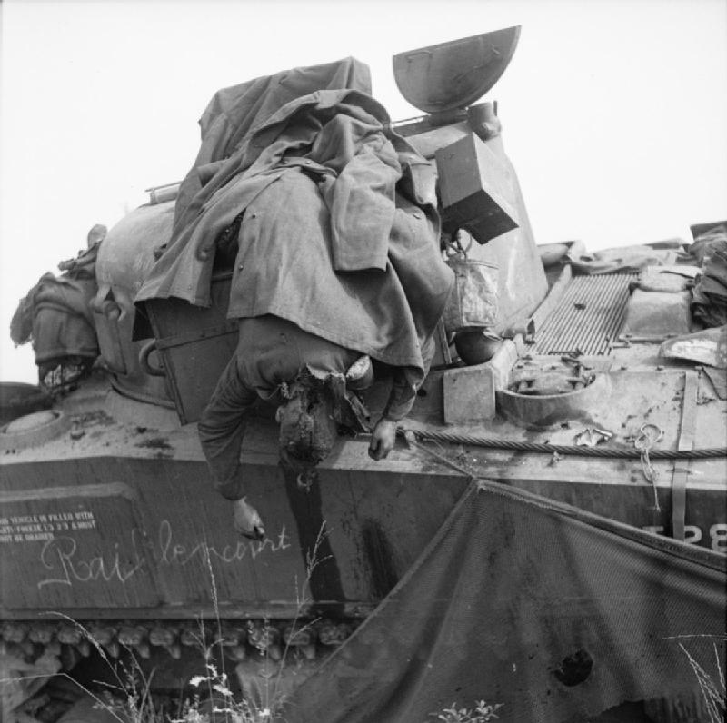 2717391 Squadron Sergeant Major William John Parkes of No. 3 Squadron, 2nd (Armoured) Irish Guards, killed when his Sherman tank was knocked out during the advance towards Eindhoven as part of Operation 'Market-Garden'. Killed in action on 17 September 1944 aged 33, he was a native of Belfast, Northern Ireland and was later buried in Grave II.B.8 at Valkenswaard War Cemetery, situated approx 10kms south of Eindhoven and close to the Belgian border.